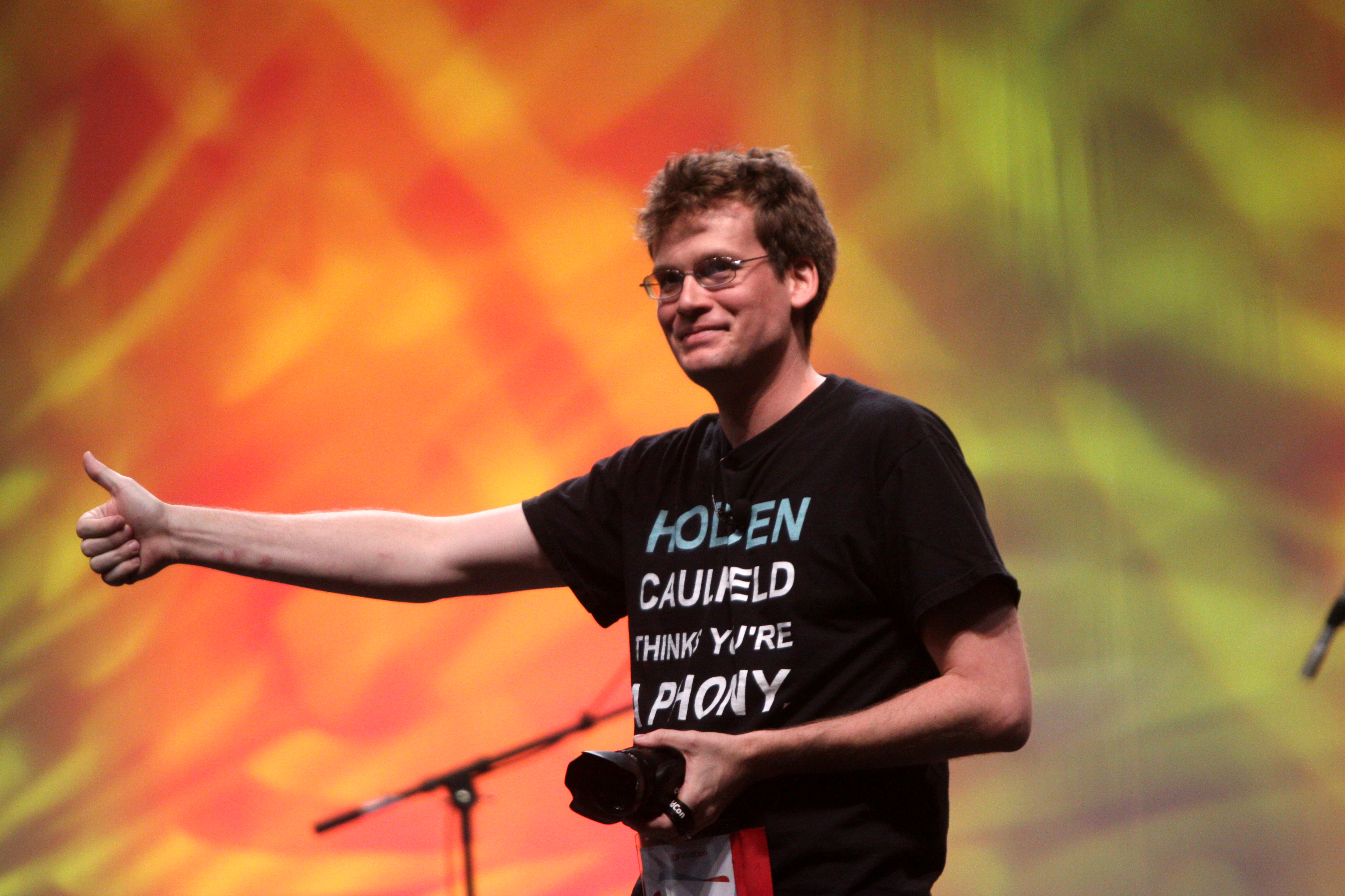 John Green speaking at VidCon 2012 at the Anaheim Convention Center in Anaheim, California.